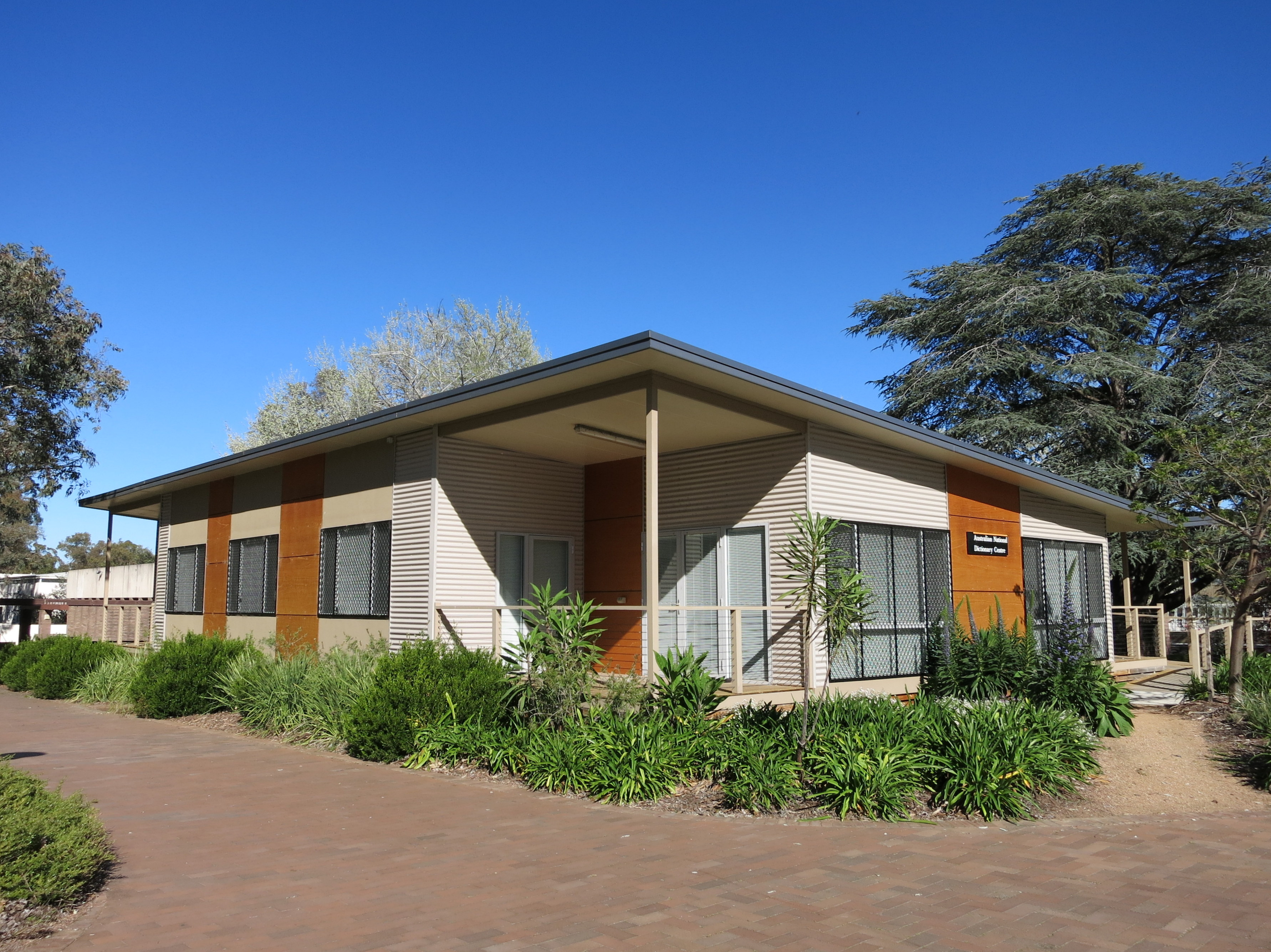 The demountable building which house the Australian National Dictionary Centre